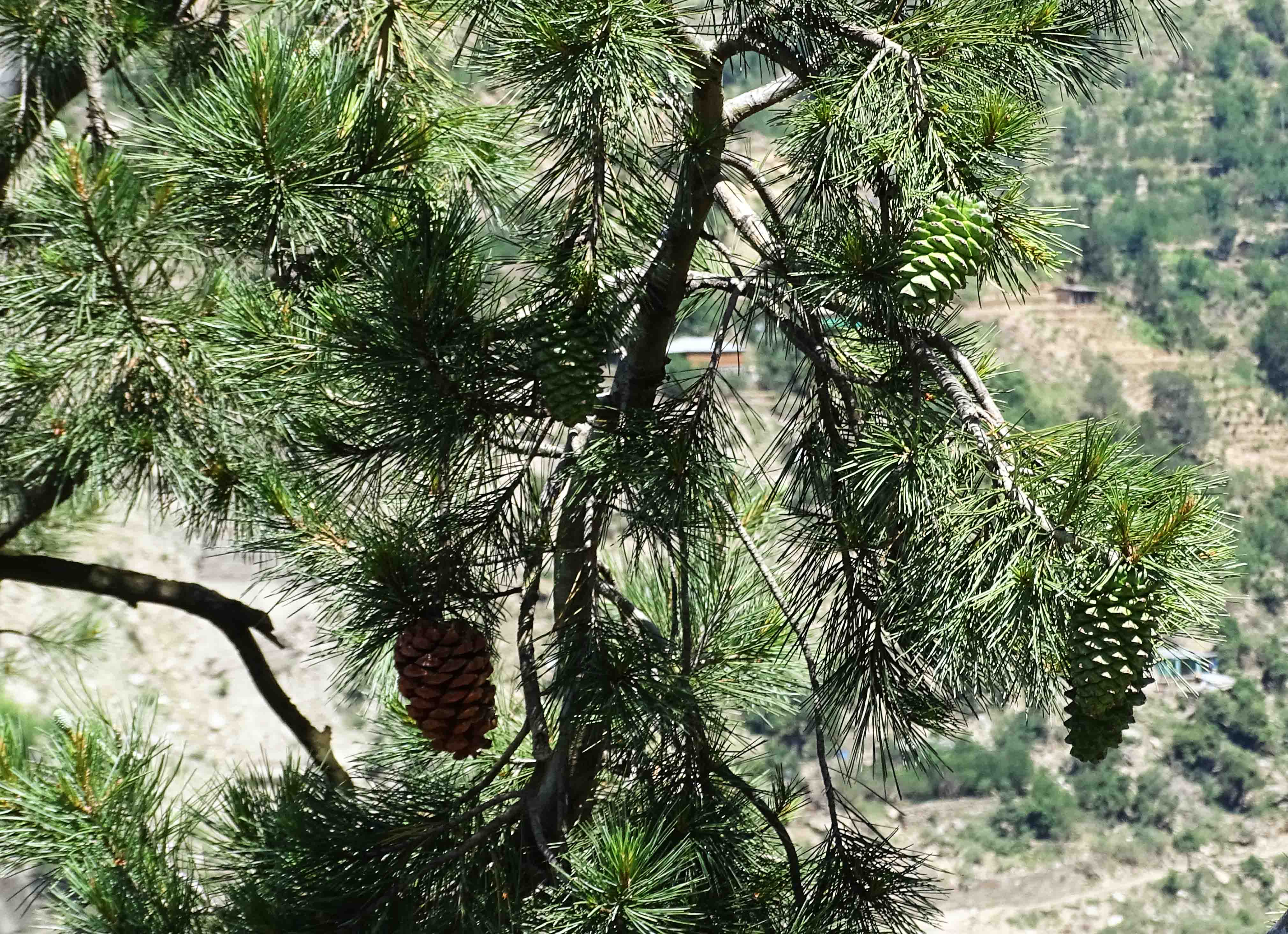 Pinus gerardiana with mature and immature cones at Kalpa, India.